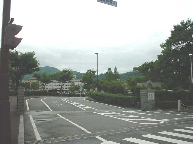 The entrance of Yoshida Campus, Yamaguchi University.